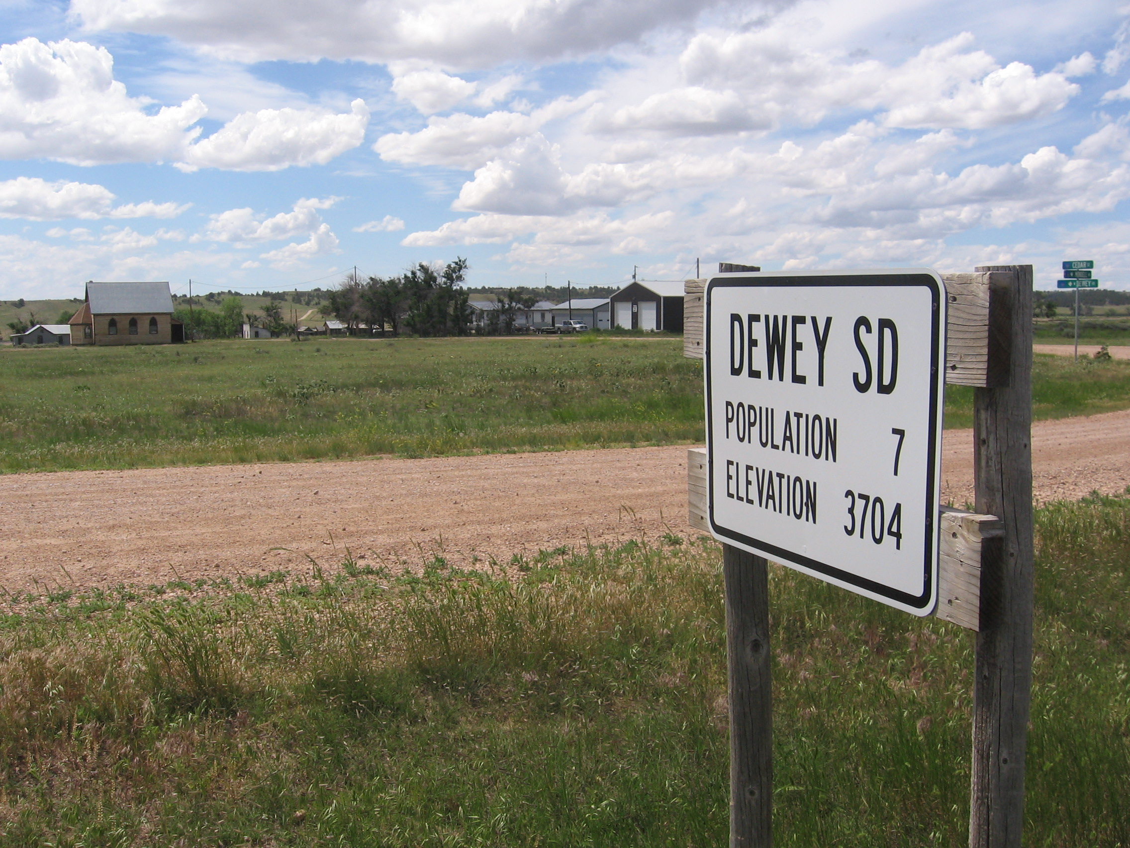 The city welcome sign for Dewey, South Dakota. Population 7, Elevation 3704 (feet above sea level). Road and buildings in the background.